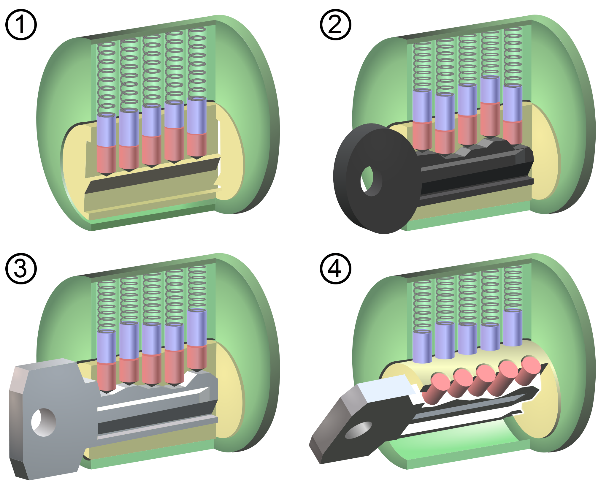 Explanation of how a tumbler key lock